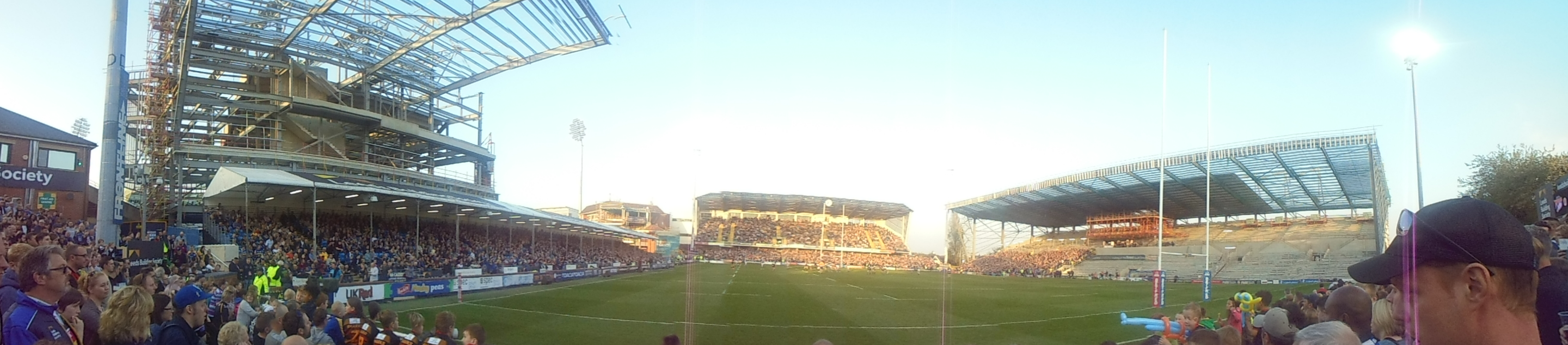 Leeds Rhinos v Warrington Wolves, Headingley Stadium, Leeds, West Yorkshire. The game finished Leeds 22- 33 Warrington. Taken on the evening of Friday the 4th of May 2018.